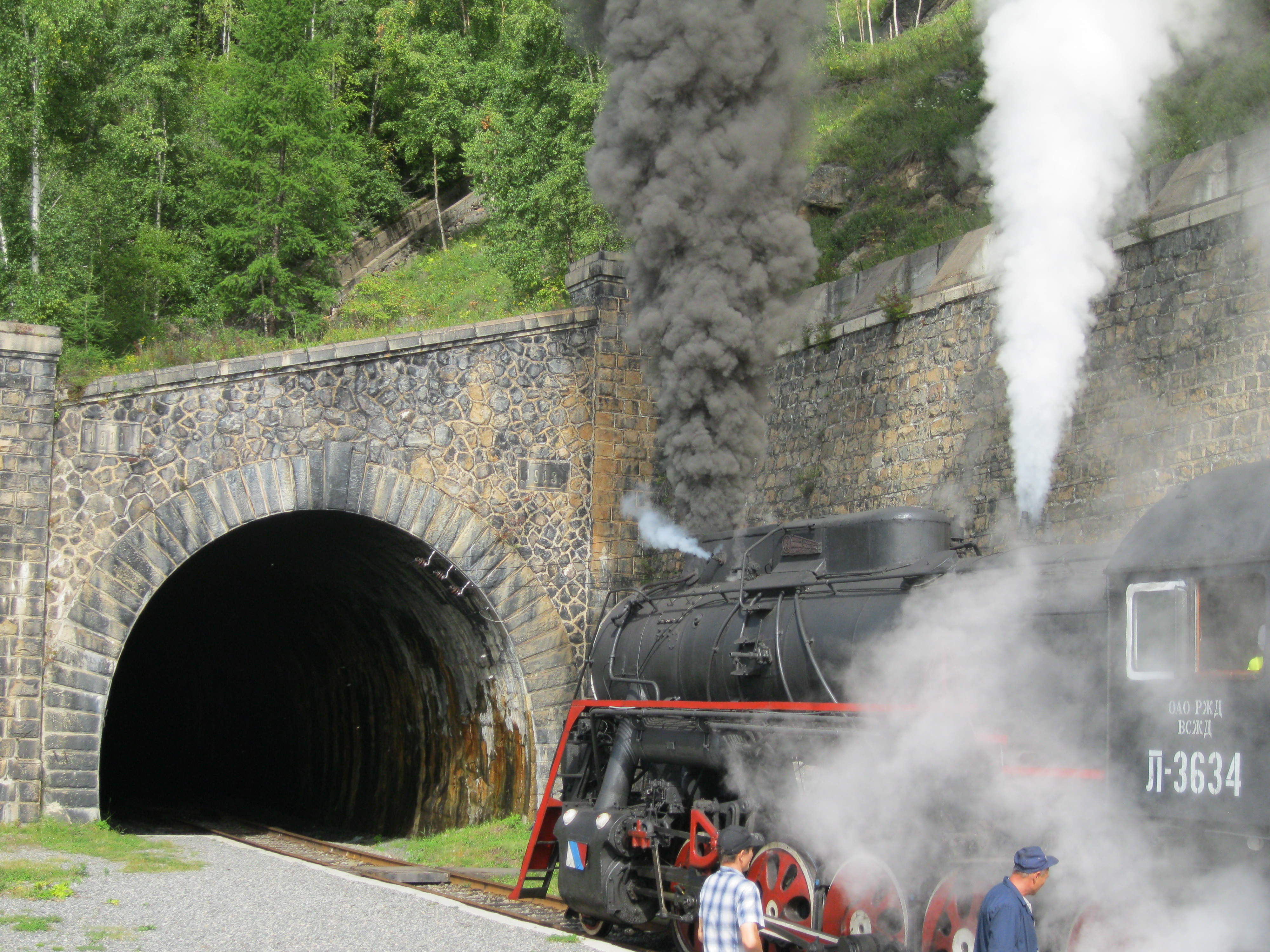 Paravoz na CBR